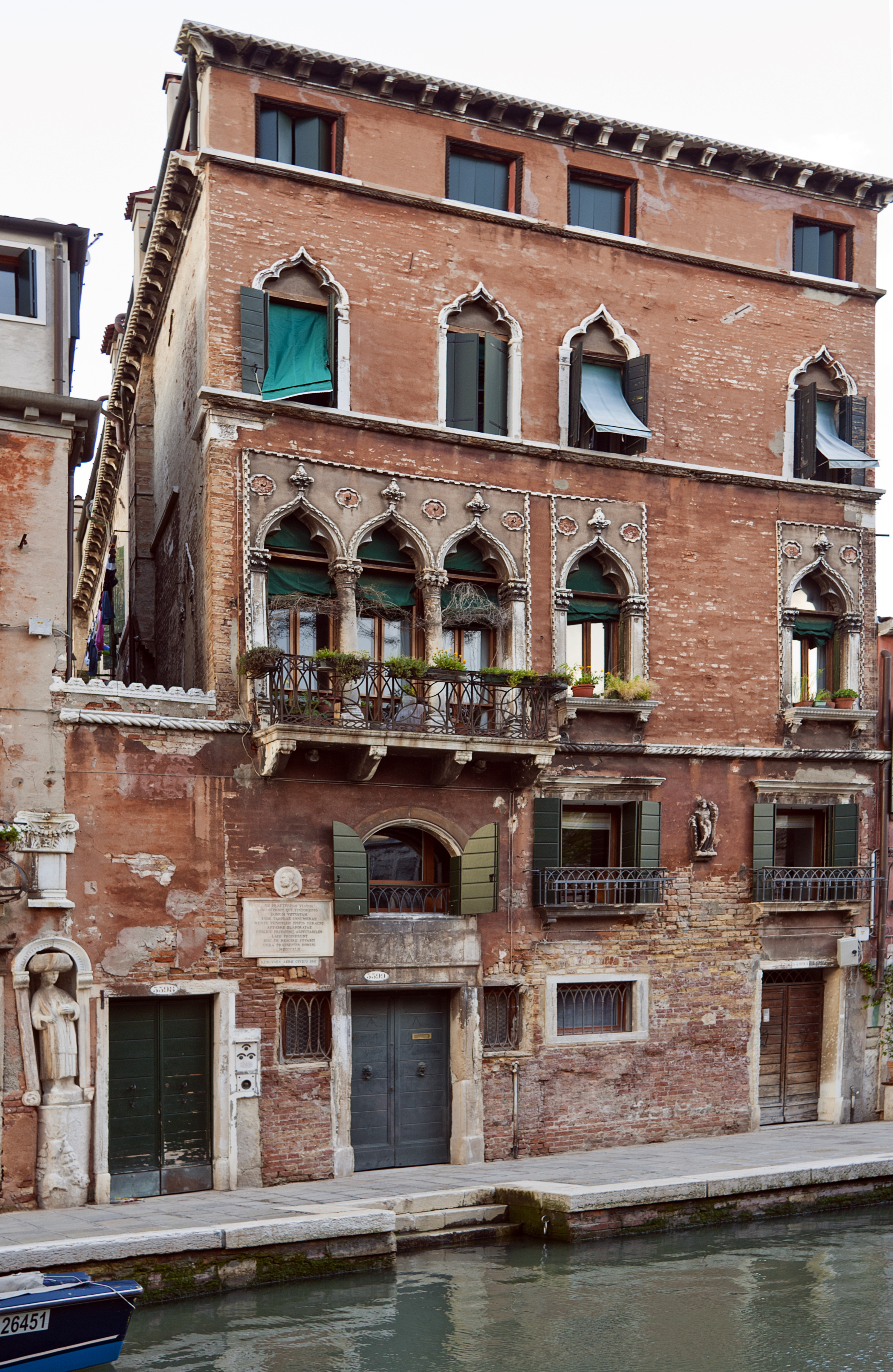 House of Tintoretto "Fondamenta dei mori" - Cannaregio - Venice